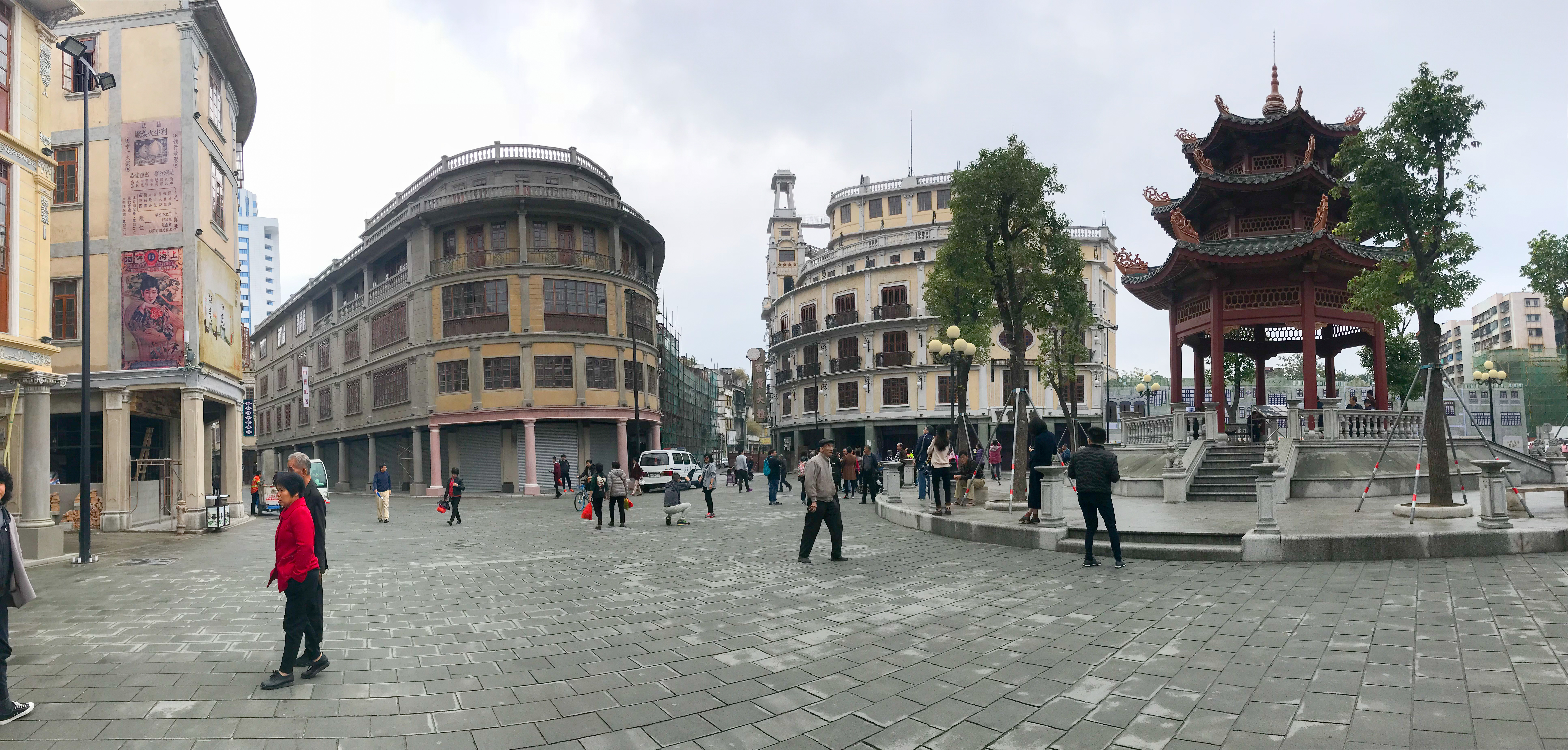 The Small Park Square (Sio Kong Ng) in Shantou (Swatow) City.